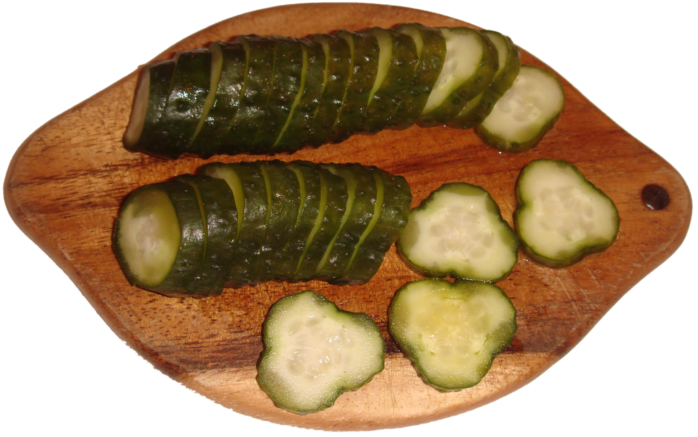 Shortly pickled cucumber ([Cucumis sativus])